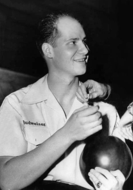 1955 Press Photo Billy Welu and Don Carter in All Star Bowling Tournament